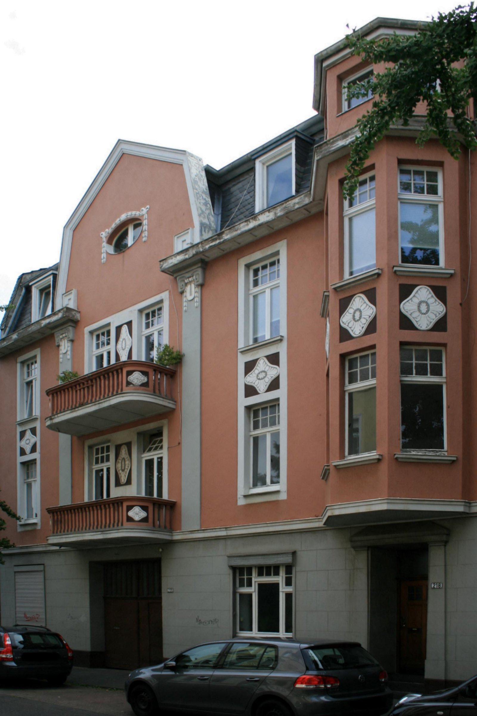 Cultural heritage monument No. M 032 in Mönchengladbach